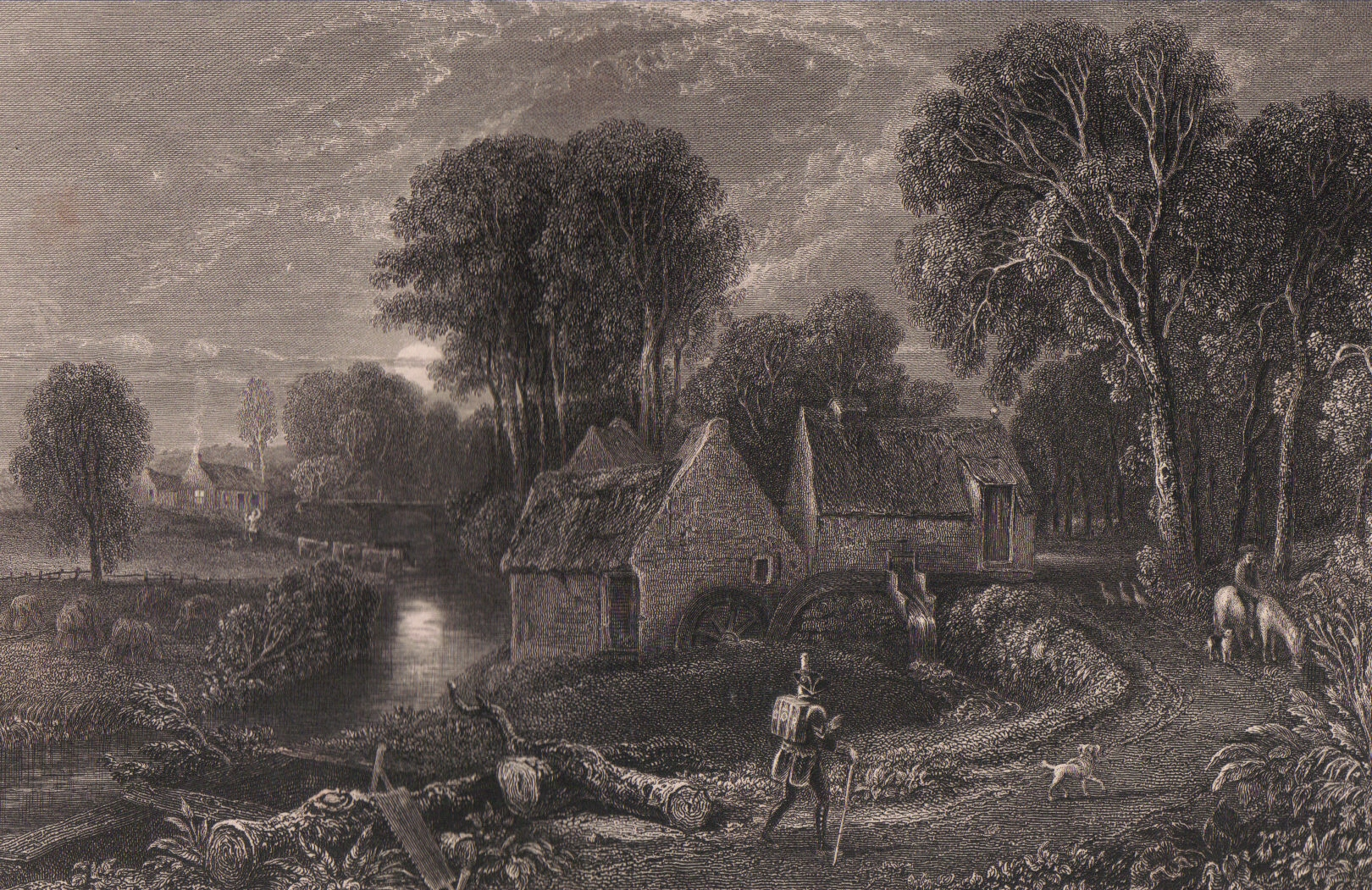 Mill of Monach on the Water of Coyle in 1840, South Ayrshire, Scotland.